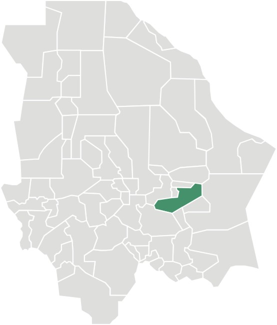 Map of the Municipalty of Saucillo in the State of Chihuahua, México.